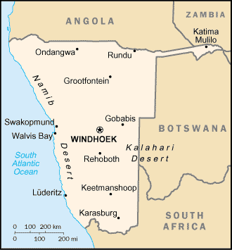 Map of Namibia, showing major cities.